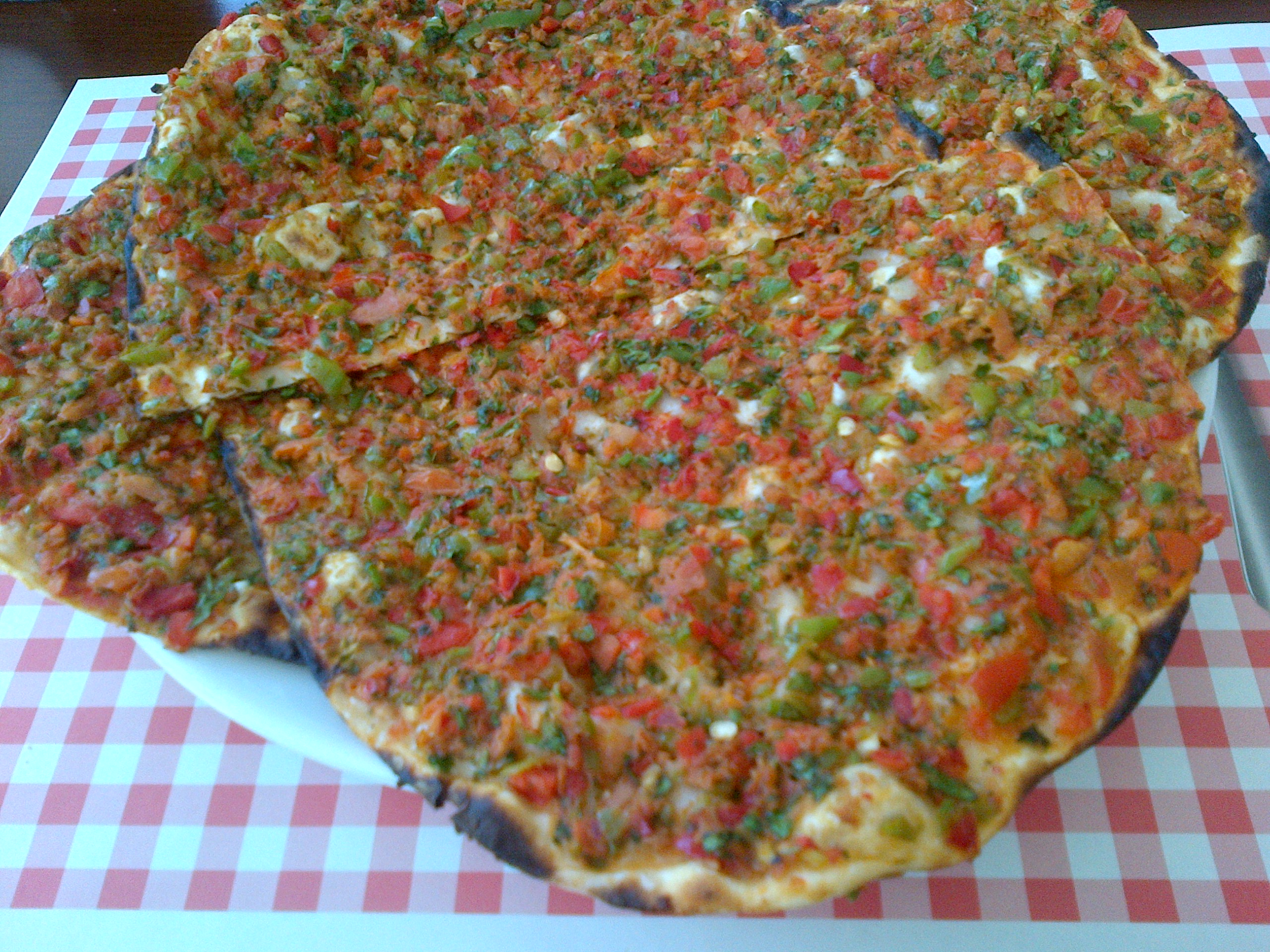 A couple of "lahmacun" from Gaziantep, in Ankara.